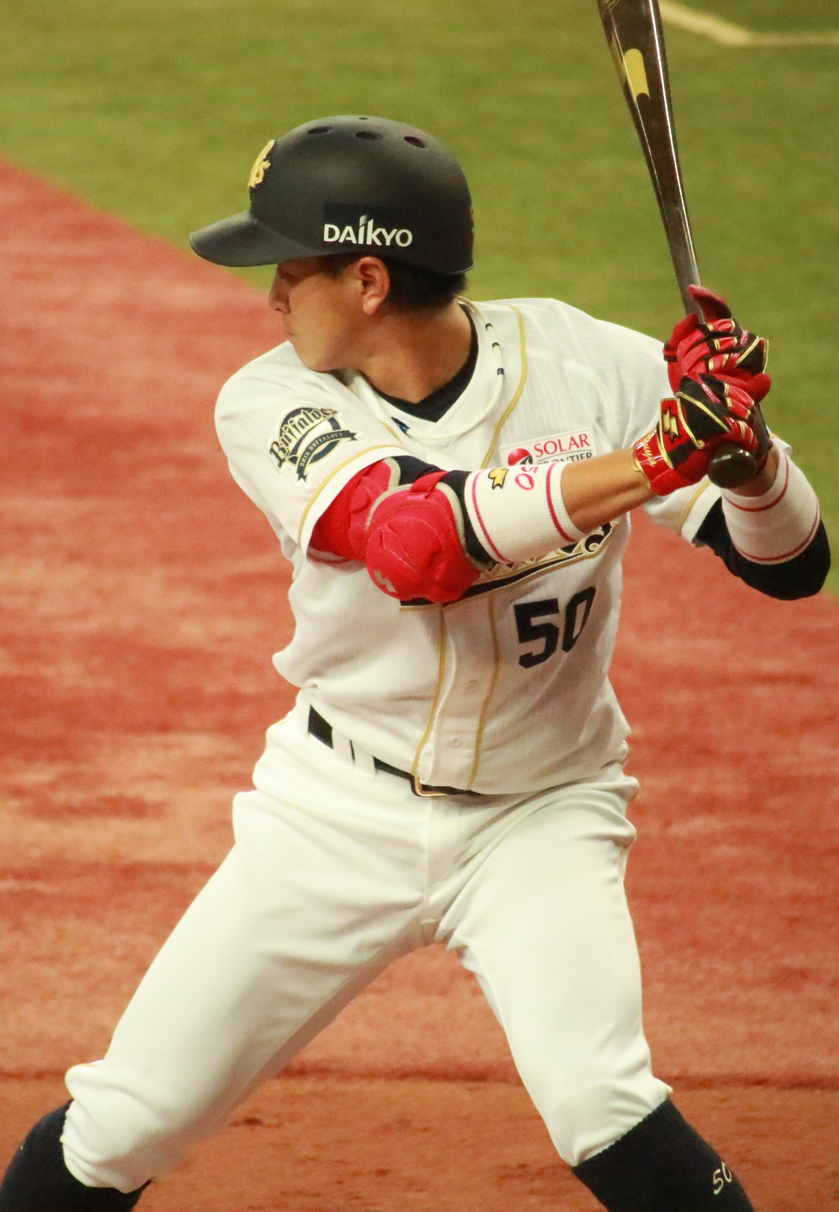 Yuya Oda, outfielder of the Orix Buffaloes, at Osaka Dome.